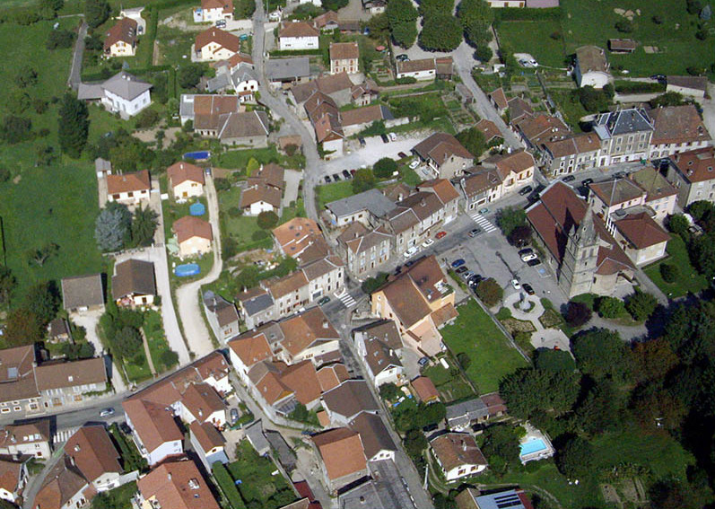 City center of Vaulnaveys le haut